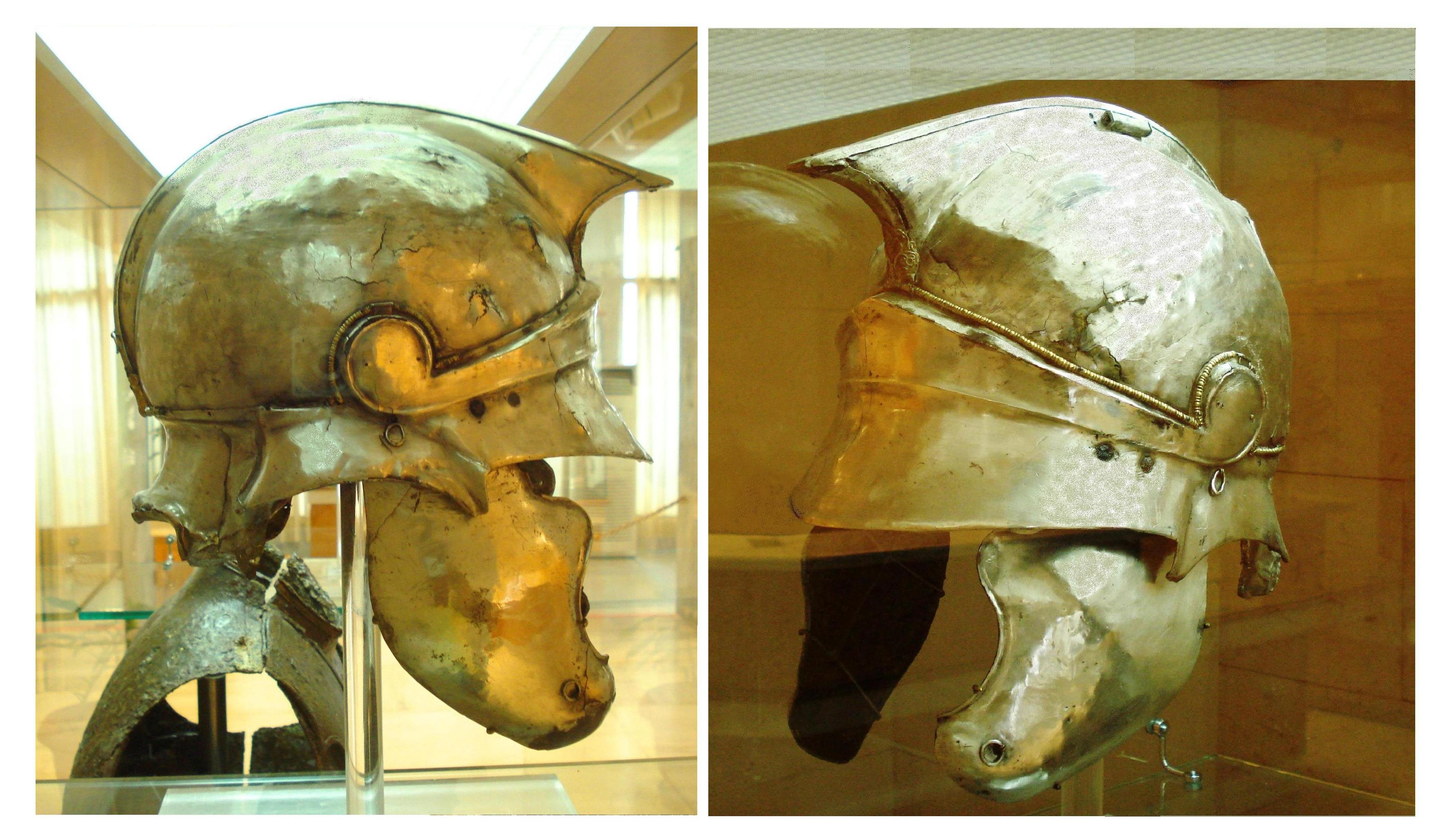 Silver helmet of Pyrrhus of Epirus at Archaeological Museum of Igoumenitsa